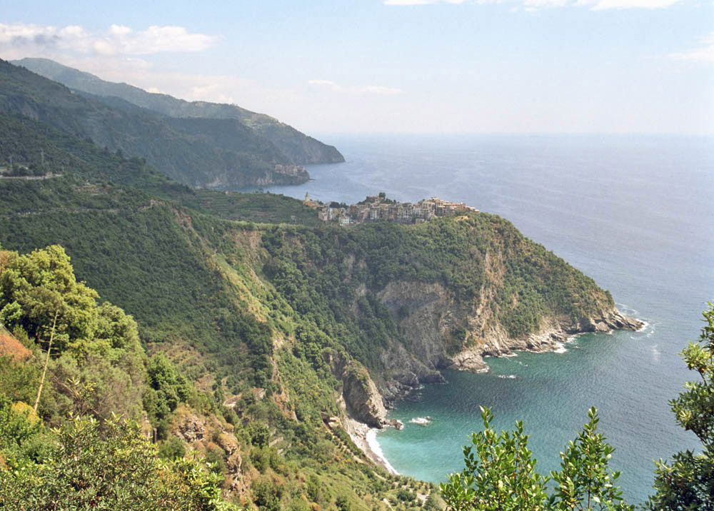 Photo of Corniglia in Italy.